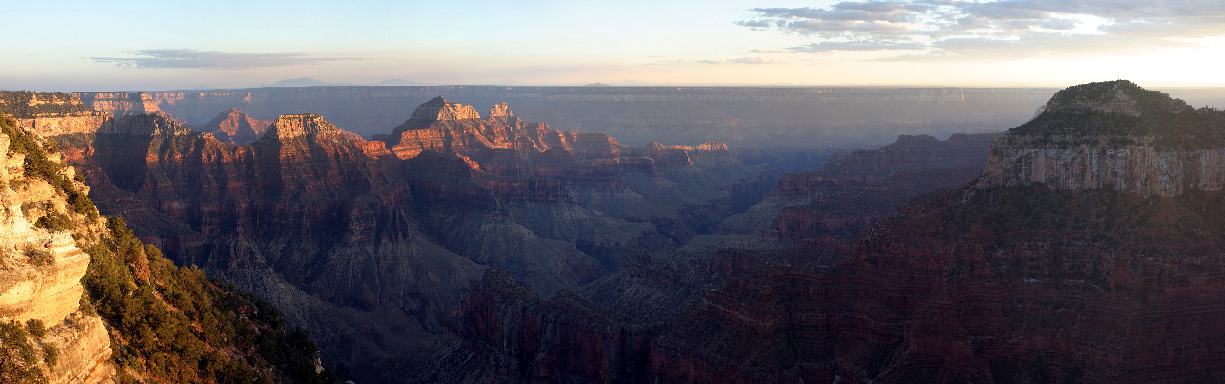 A panoramic view of the Grand Canyon from the North Rim. Taken by myself with a Canon 10D and 17-40mm f/4L fireball.